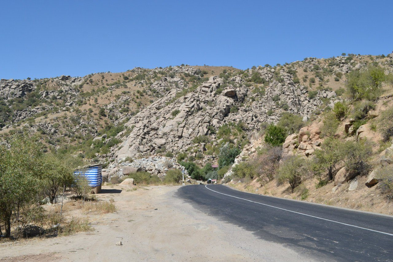 Mountains and road to Samarkand (Uzbekistan)